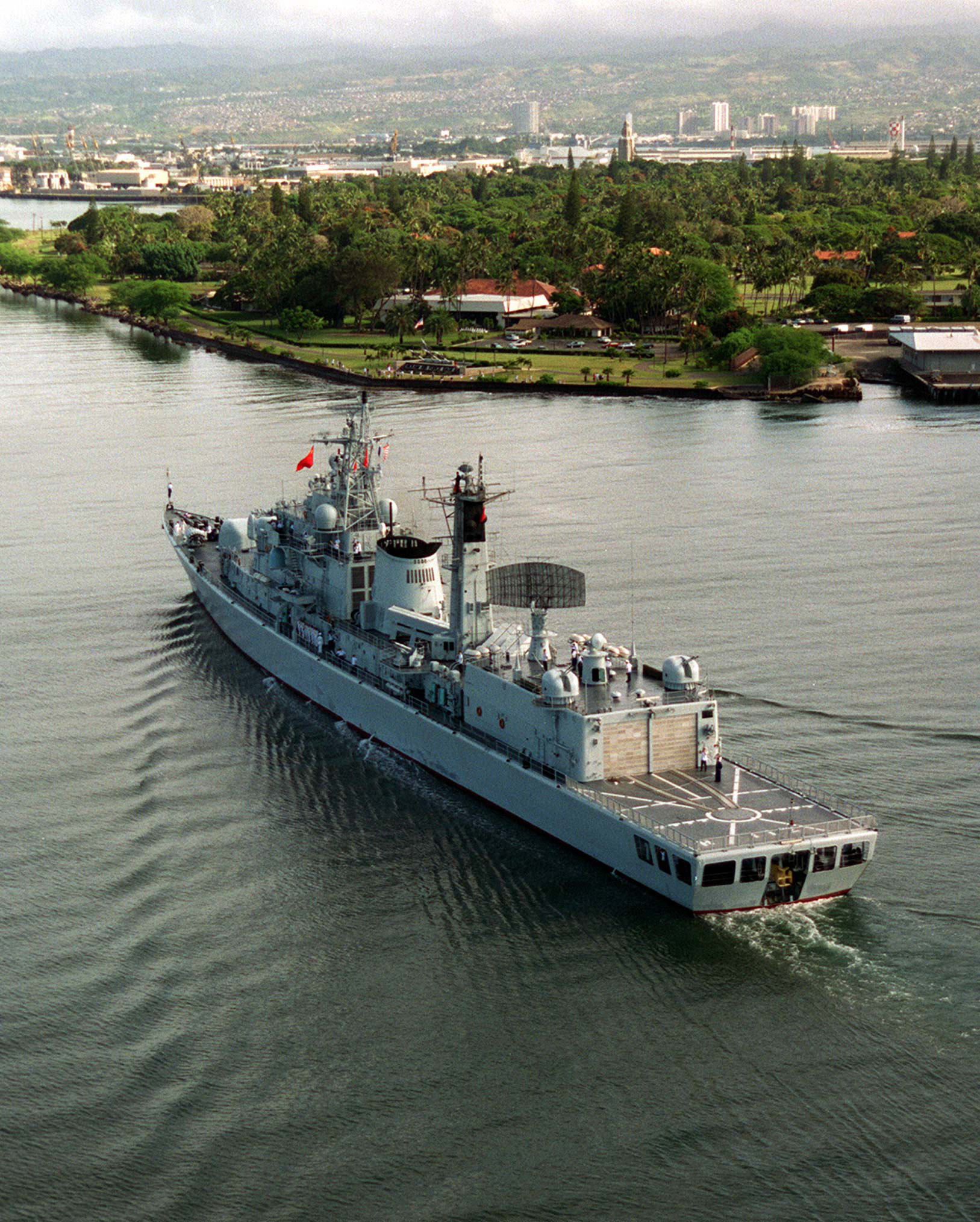 Der Zerstörer Harbin (DD 112) der chinesischen Volksbefreiungsarmee bei einem Besuchs des US-Marinestützpunktes Pearl Harbor, Hawaii am 9. März 1997.*The People's Republic of China destroyer Harbin (DD 112) pulls into Pearl Harbor, Hawaii, on March 9, 1997. Harbin and two other People's Republic of China ships are visiting Hawaii for the first part of a scheduled goodwill visit between the U.S. and Chinese navies. The ships will continue on to San Diego, Calif., for a first-ever visit by People's Republic of China Navy ships to the mainland U.S. The U.S. and the People's Republic of China navies are the two largest fleets in the Asia-Pacific region. Interaction between the two navies increases mutual understanding and confidence. During the visits, Chinese sailors will have the opportunity to meet their U.S. Navy counterparts, tour U.S. ships, experience American culture in Hawaii and Southern California, and learn about the United States.